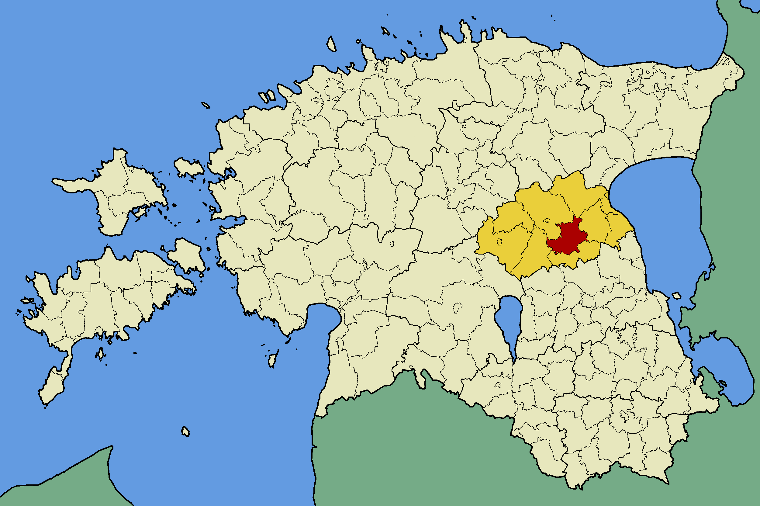 Map of Estonia with borders of municipalities (parishes). Jõgeva county and Palamuse municipality emphasized.